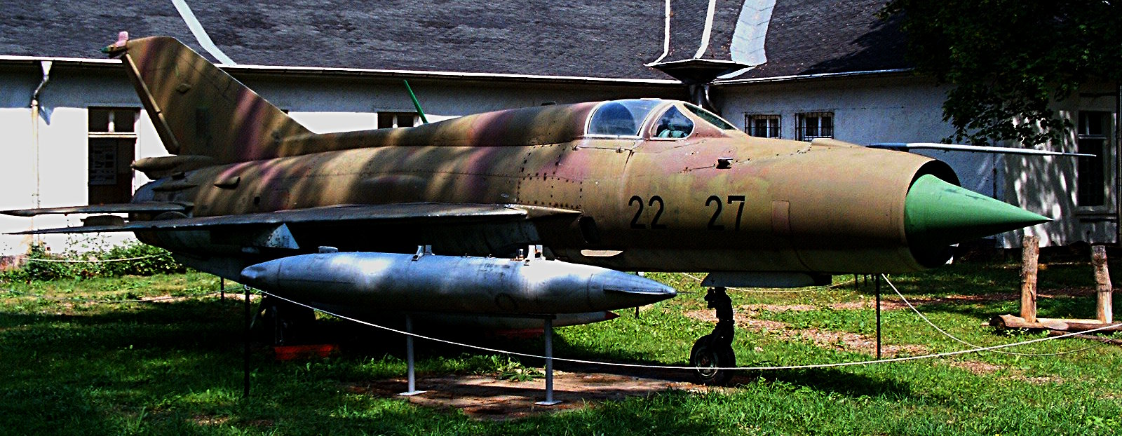 Mig-21PFM, ex bort 742 blue, in east german sevice designated MiG-21SPS. It received west german bort number 22-27 after beeing inherited by the Bundesluftwaffe. Altenburg airport, Nobitz, Saxony, Germany.